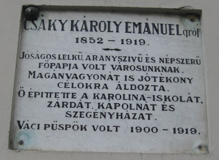 Károly Emánuel Csáky commemorative plaque in Vác. Köztársaság Street No 2.